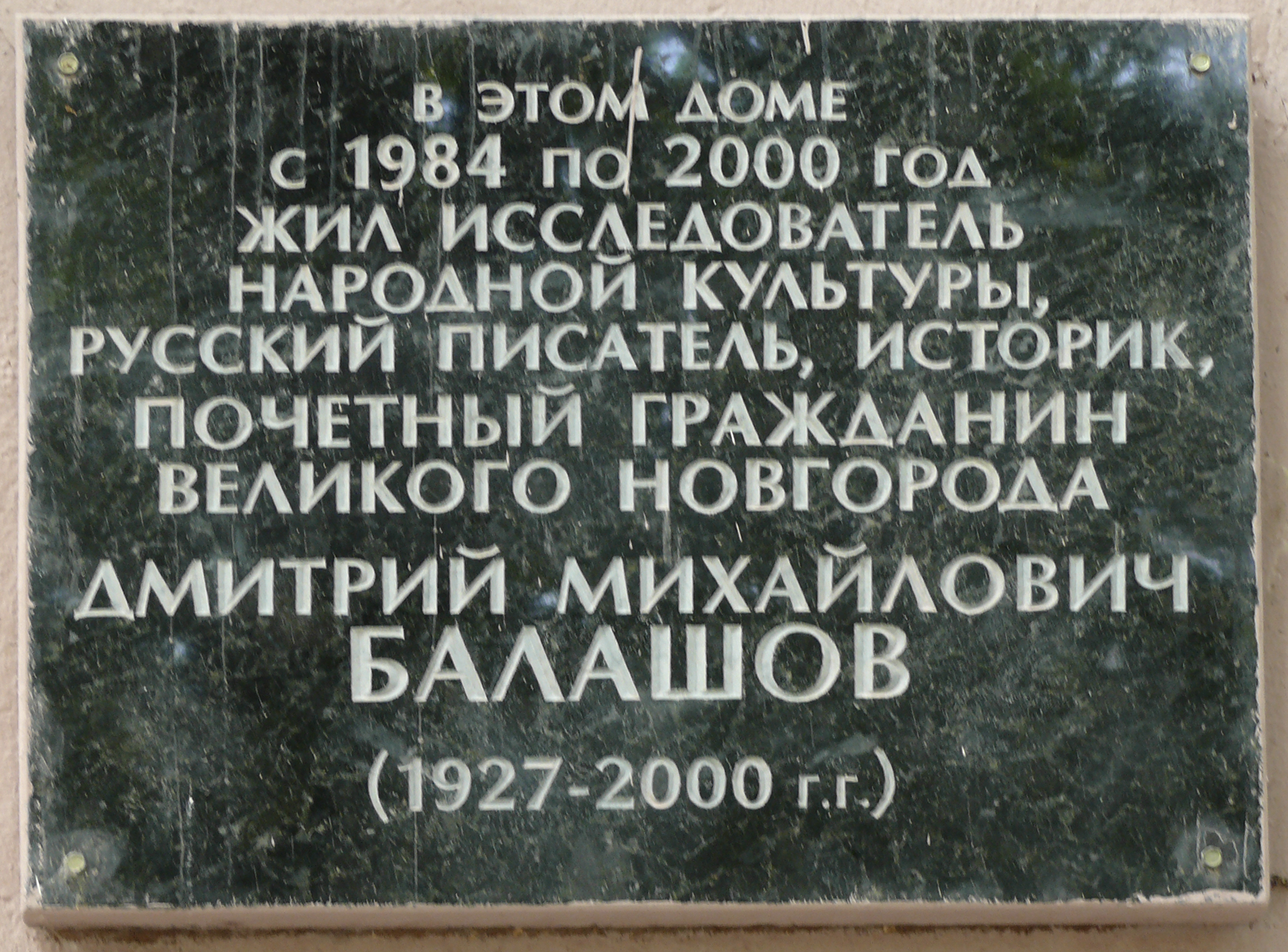 The Memory plaque with the name of the writer Balashov in Veliky Novgorod, Russia